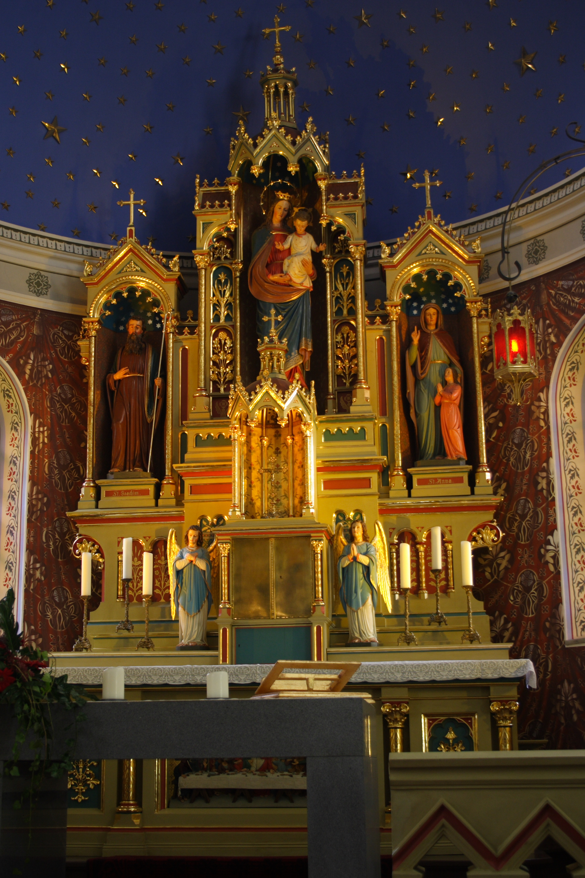 Main altar of "St. Marien am Behnitz" in Berlin-Spandau